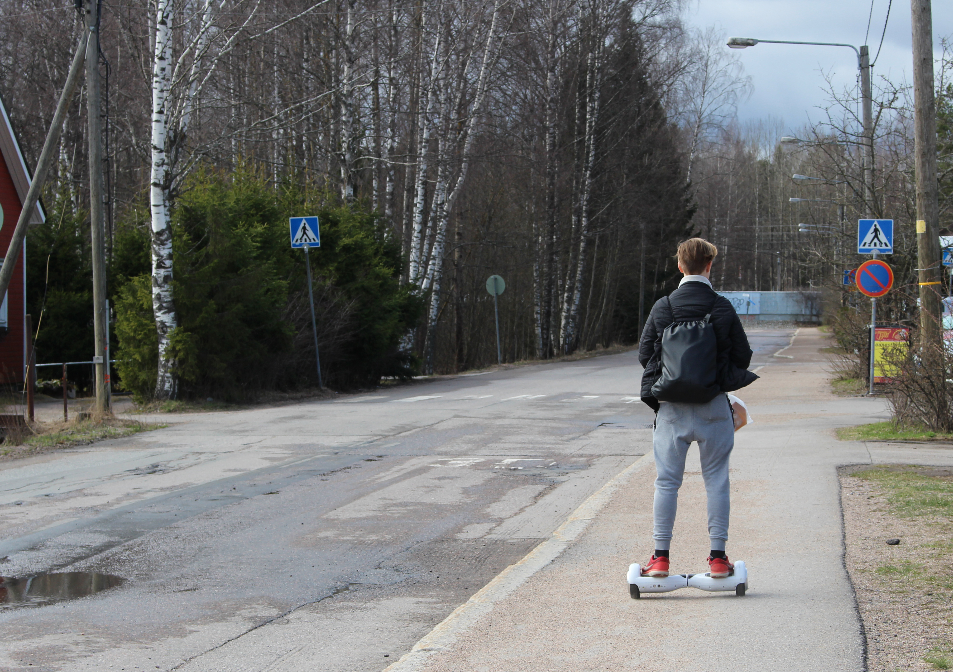 A young man riding a self-balancing scooter on Laurintie Street in Rekola, Vantaa, Finland